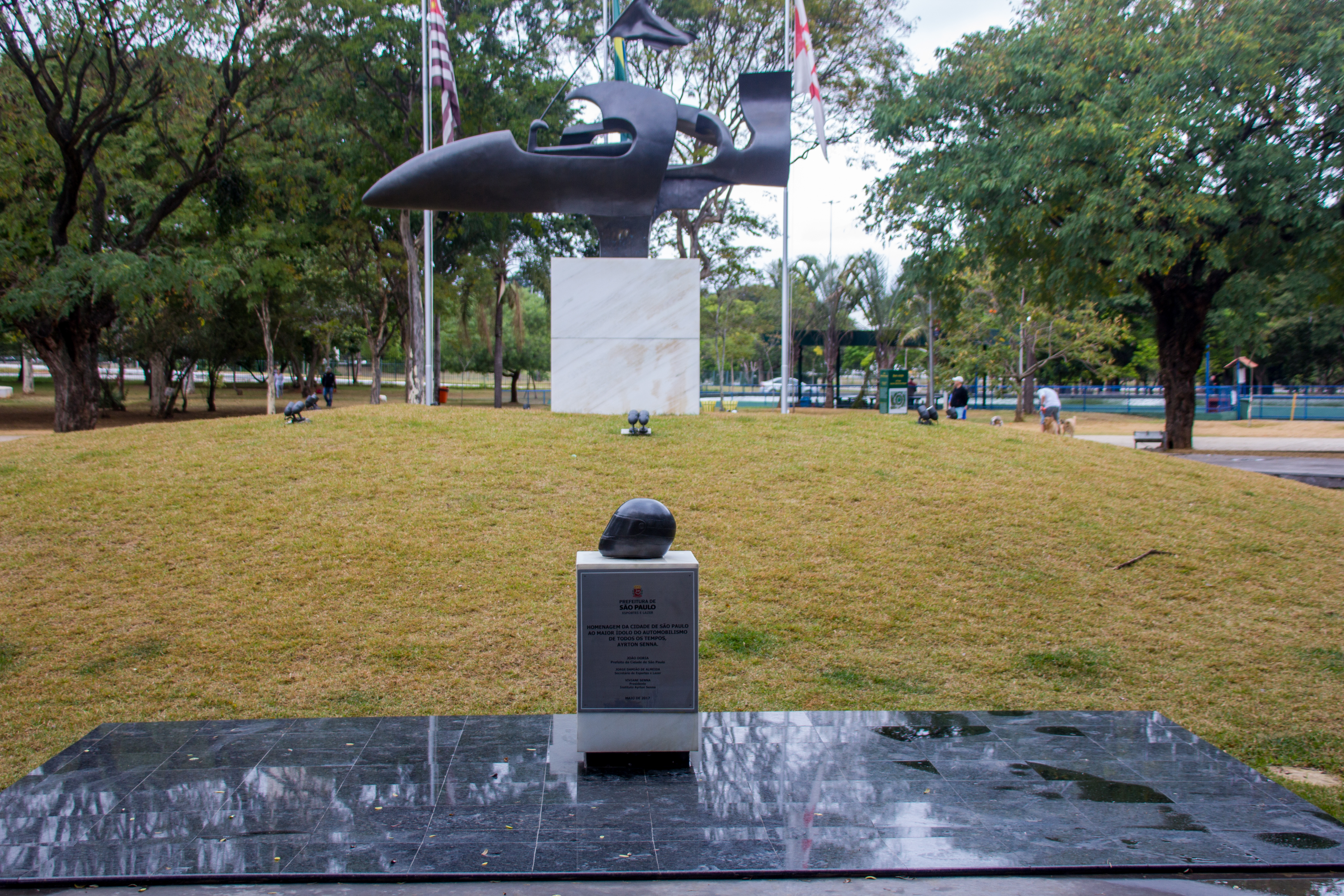 Monumento a Ayrton Senna, São Paulo, Brazil